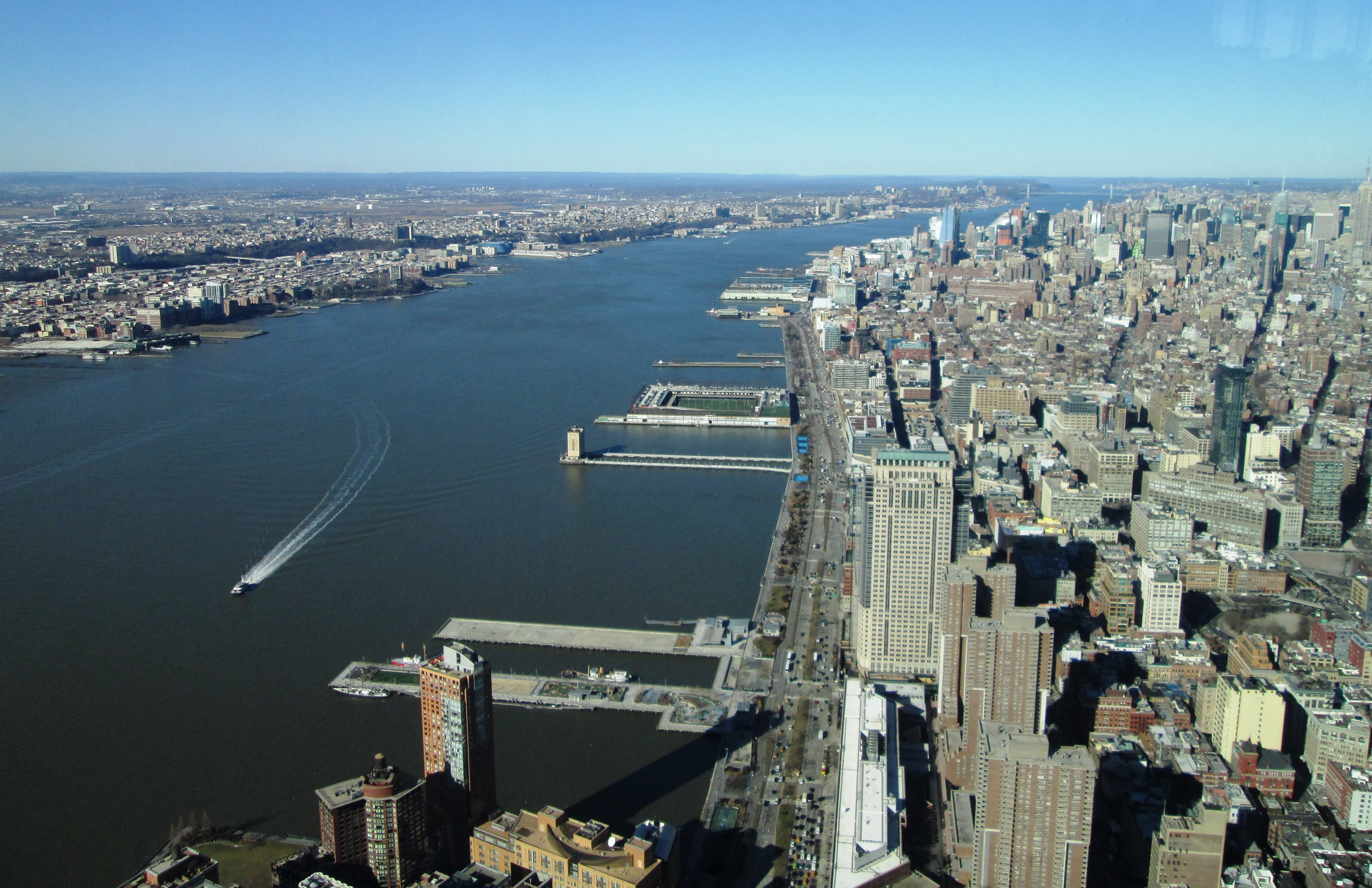 A view north-northeast along the Hudson River from the One World Observatory at One World Trade Center in Manhattan, New York City. Manhattan's Piers 25 and 26 can be seen on the right foreground, and the ventilation structure for the Holland Tunnel up the river from it. Beyond that is the square structure Pier 40. On the left side are the Jersey City and Hoboken shorelines.